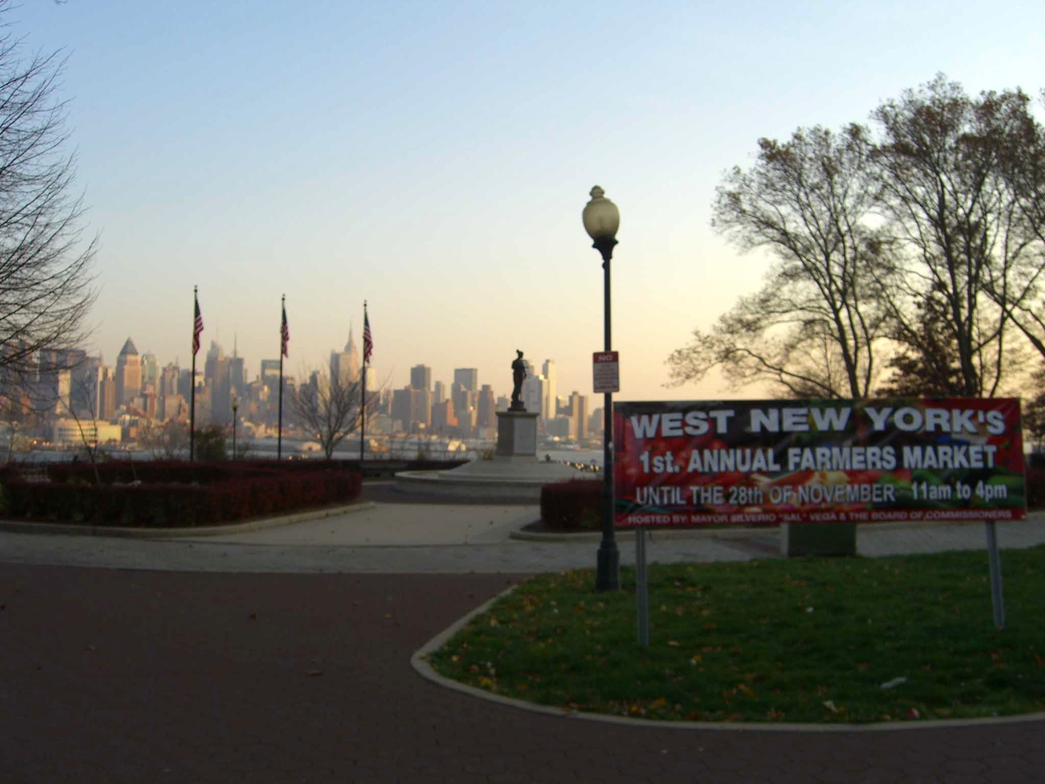 View of the Manhattan skyline from one of the many parks found along Boulevard East in West New York, New Jersey. Photographed by Luigi Novi. This photo is not in the public domain. It may, however, be used, modified and published for any purpose, only if an easily visible credit to the photographer is placed near the photo in each instance in which it is used. (See licensing information below.) Publication of this photo without this proper attribution constitutes copyright infringement. For more information on my photos, you can contact me here.